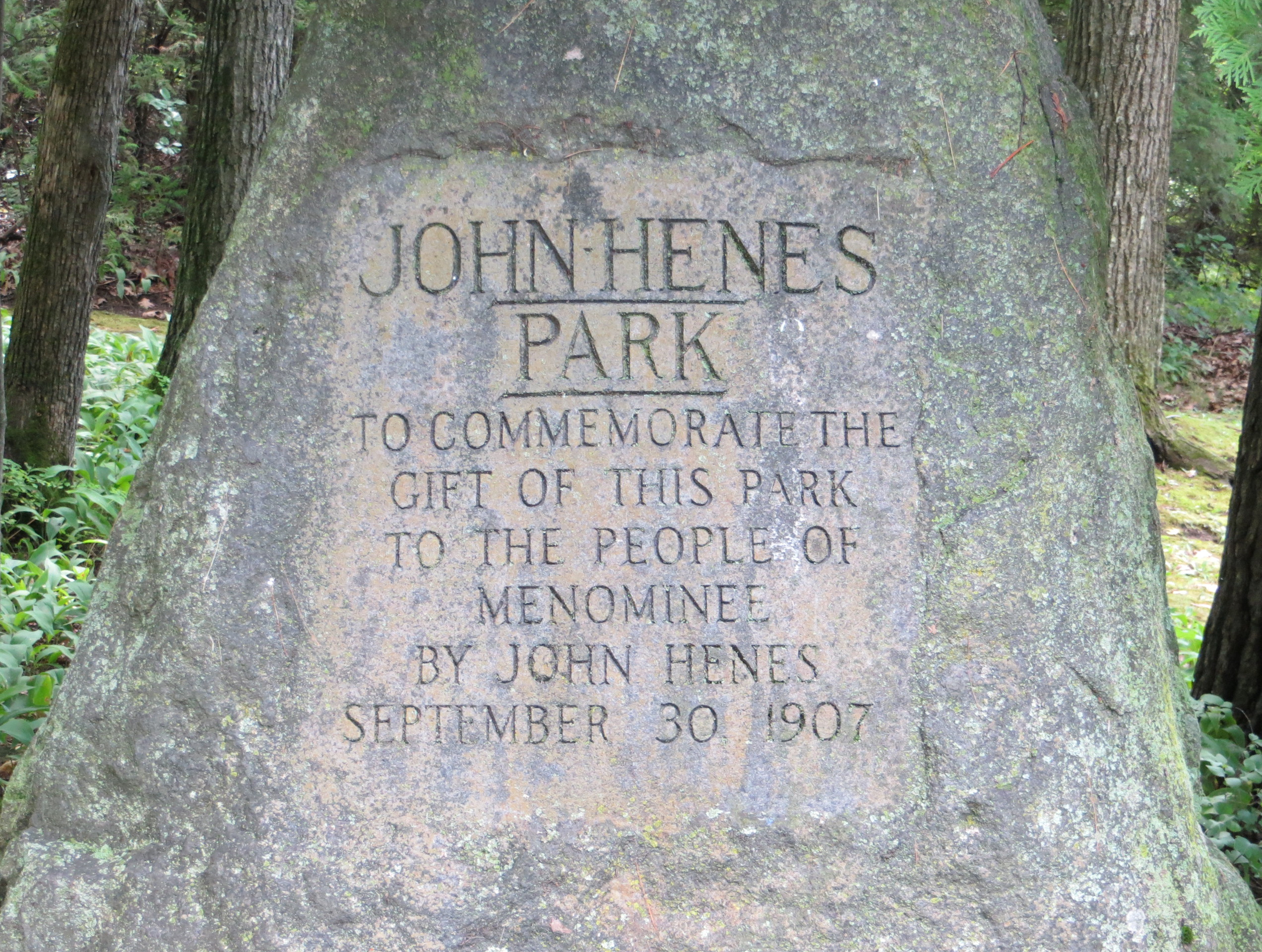 Inscription in John Henes Park, Menominee, Michigan, commemorating donation of the land by John O. Henes (1852–1923)